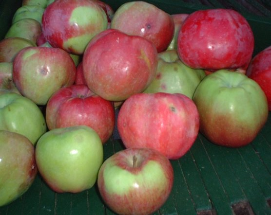 Northern Spy apple, British Columbia, Canada